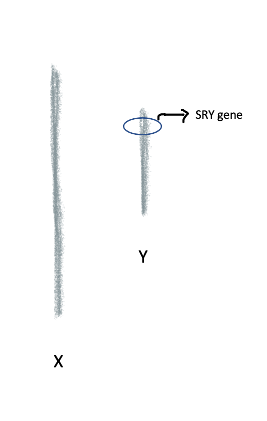 A picture depicting the locus of the SRY gene on the Y-chromosome.